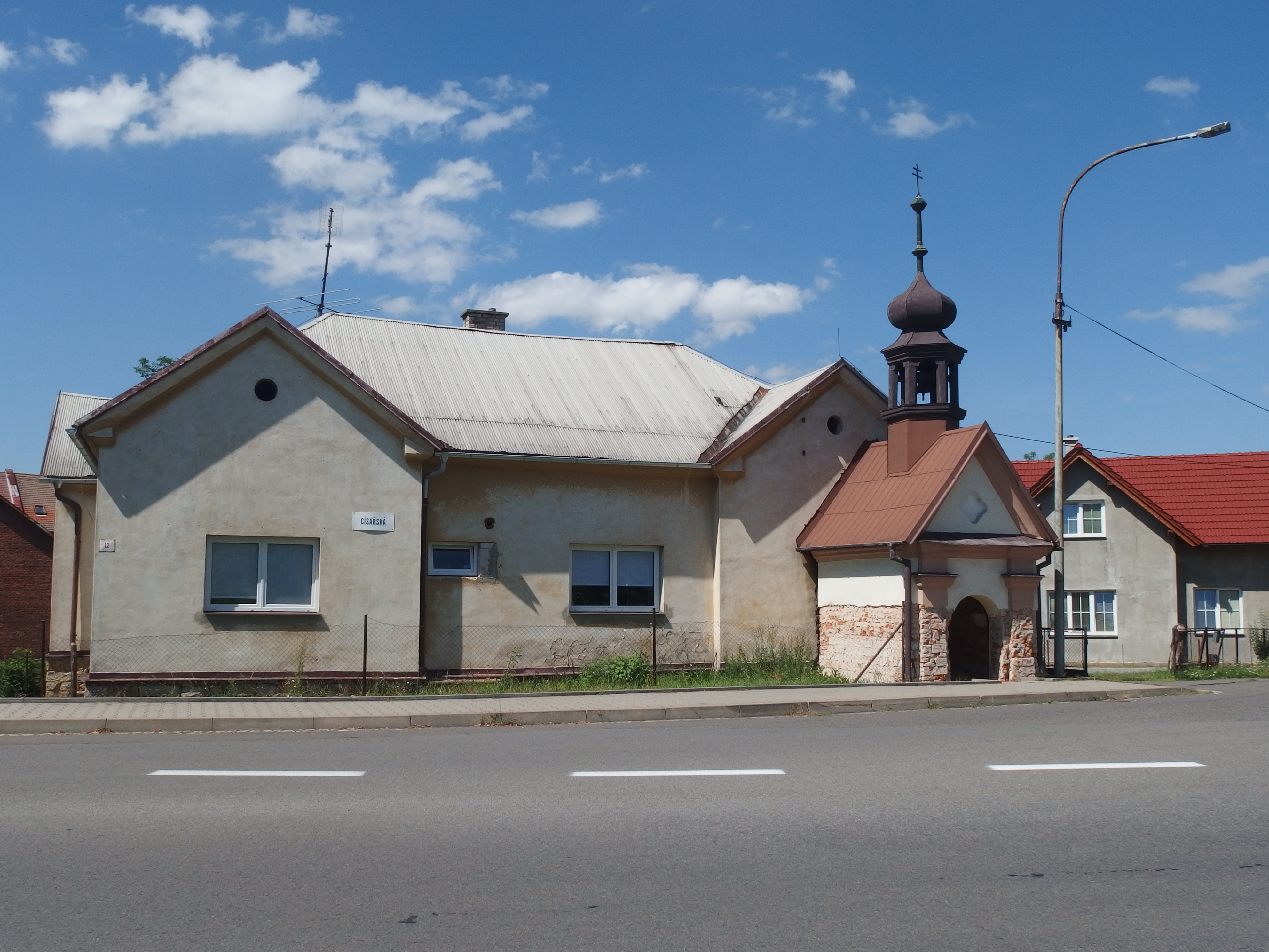 Nový Jičín, Czech Republic, part Loučka.